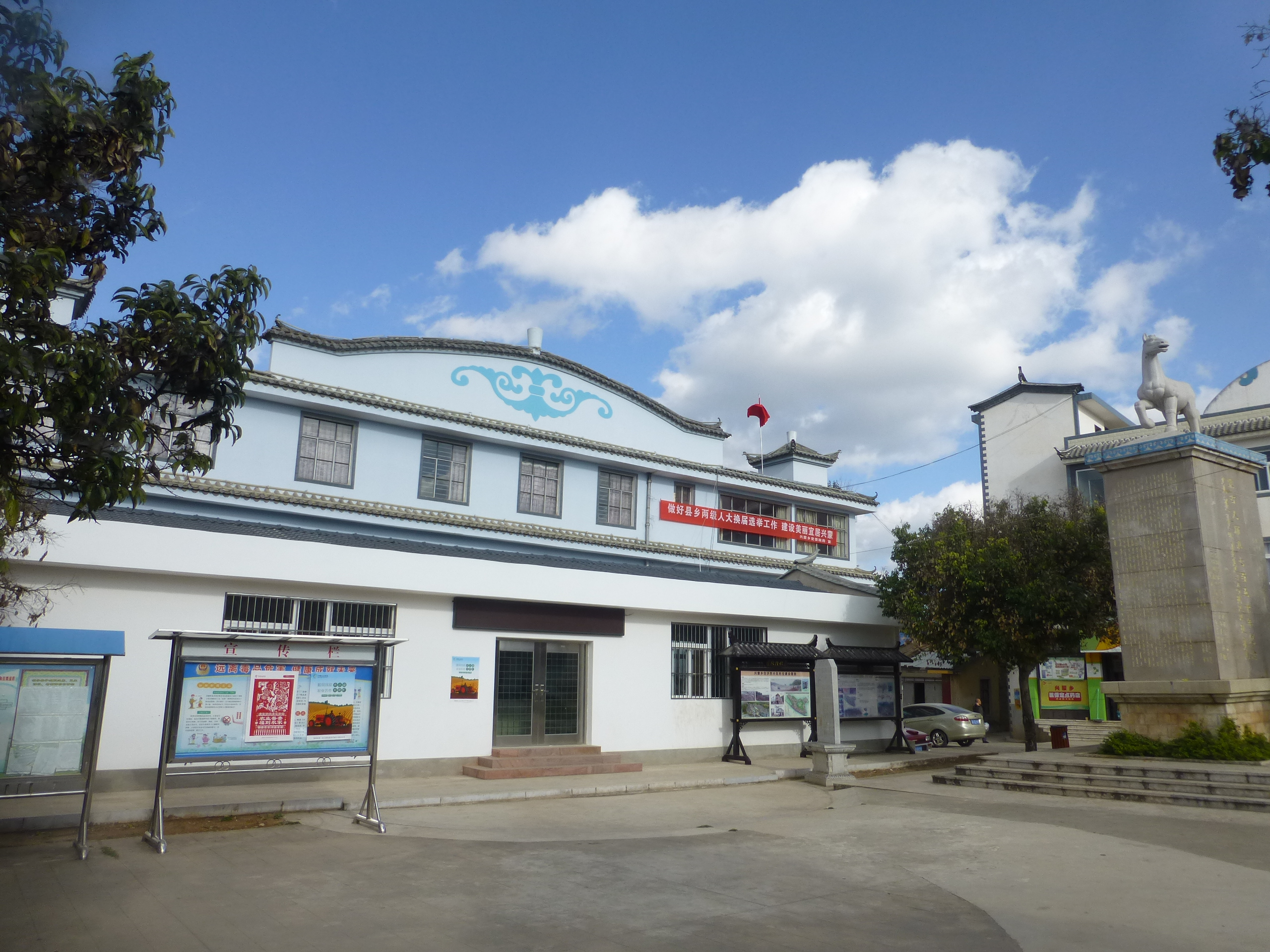 Xingmeng Mongol Ethnic Township, Tonghai County, Yunnnan.